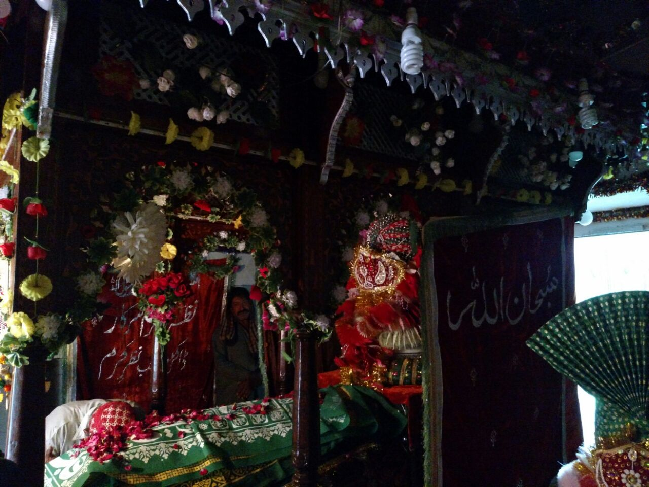 Shah Yaqeeq Bukhari grave